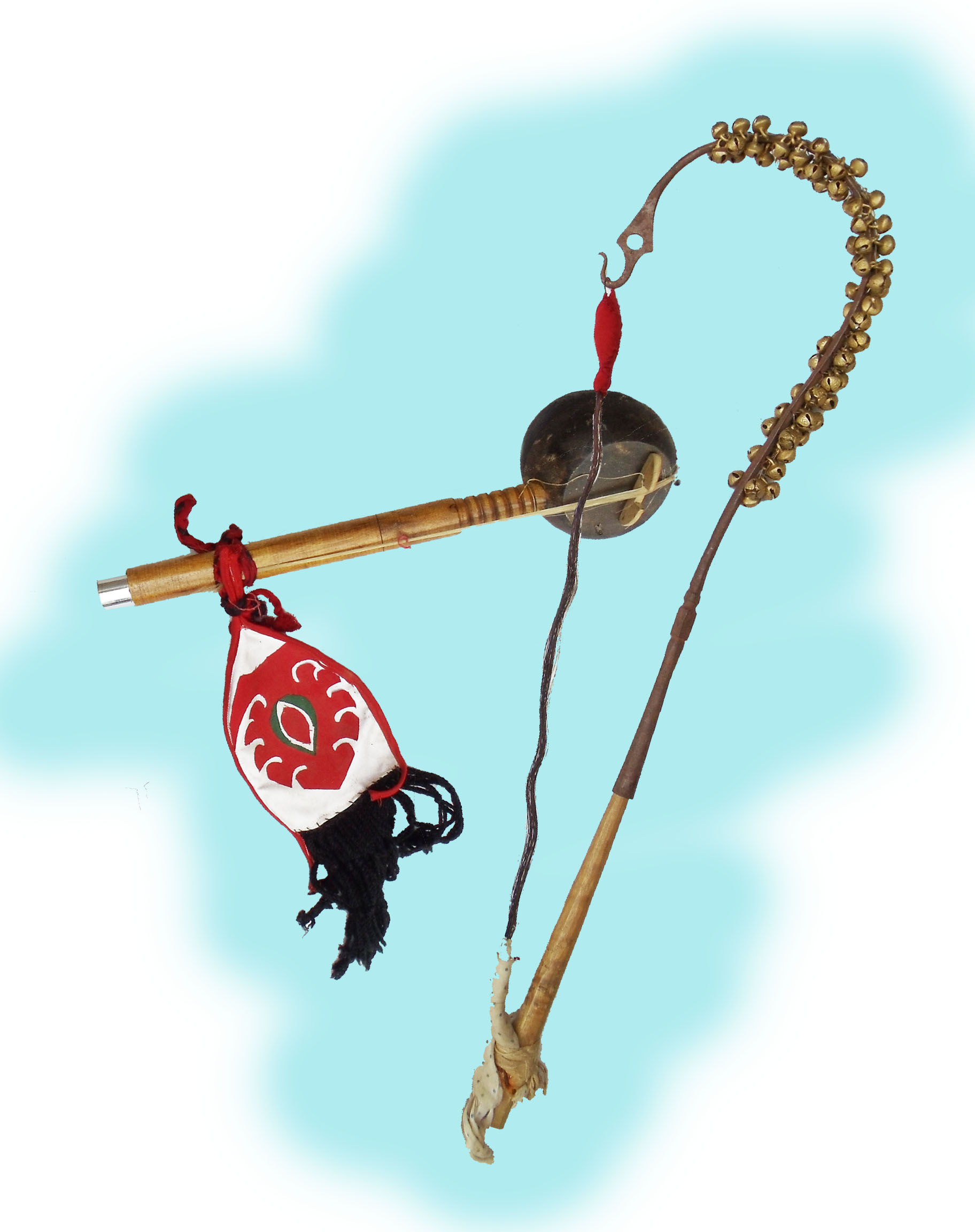 "PENA" a musical instrument of manipur for meetei community, it is unique from other musical instruments, it is slightly similar to violin. It is used from very early period and it is most important musical instrument for "LAI HARAOBA" that is jungle god worship speritually.